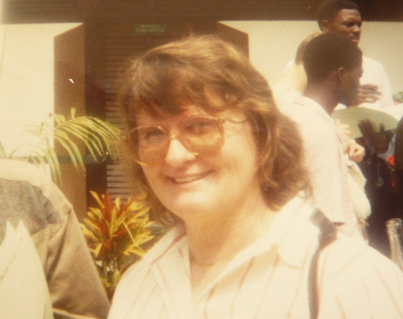 esperantist from Sweden in the second african congress in Benin, Cotonou